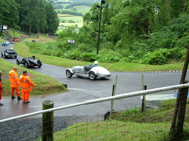 Shelsley Walsh Hill-Climb Vintage Day 2009 Competitors returning to the bottom of the hill through the top S-bend, after a Class run.